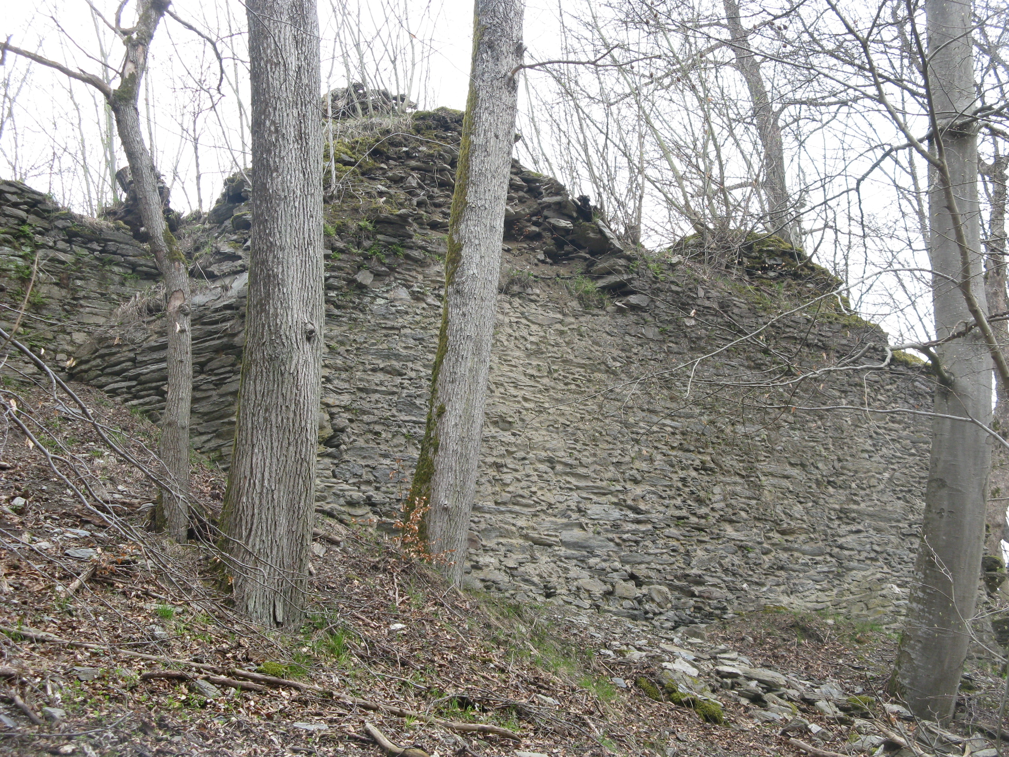 Hattstein Castle, Taunus (Germany)